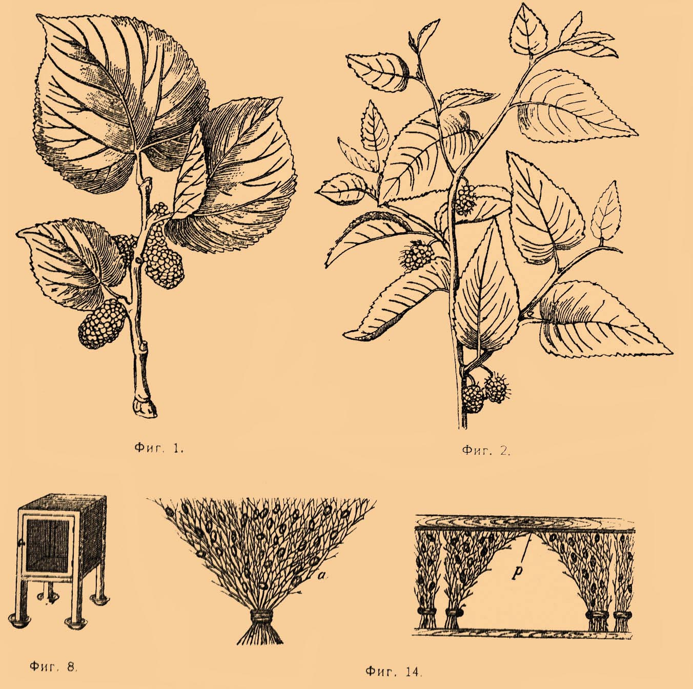 Illustration from Brockhaus and Efron Encyclopedic Dictionary (1890—1907)